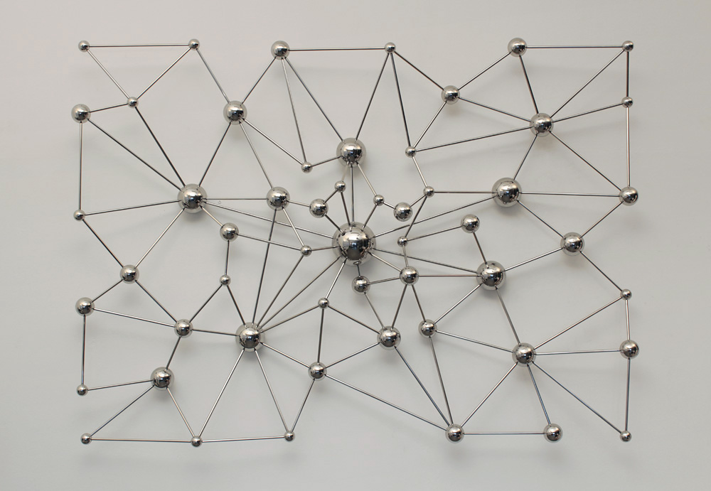 Globalexandria, 2013, 130 x 180 x 20 cm. stainless steel, mirror polished.